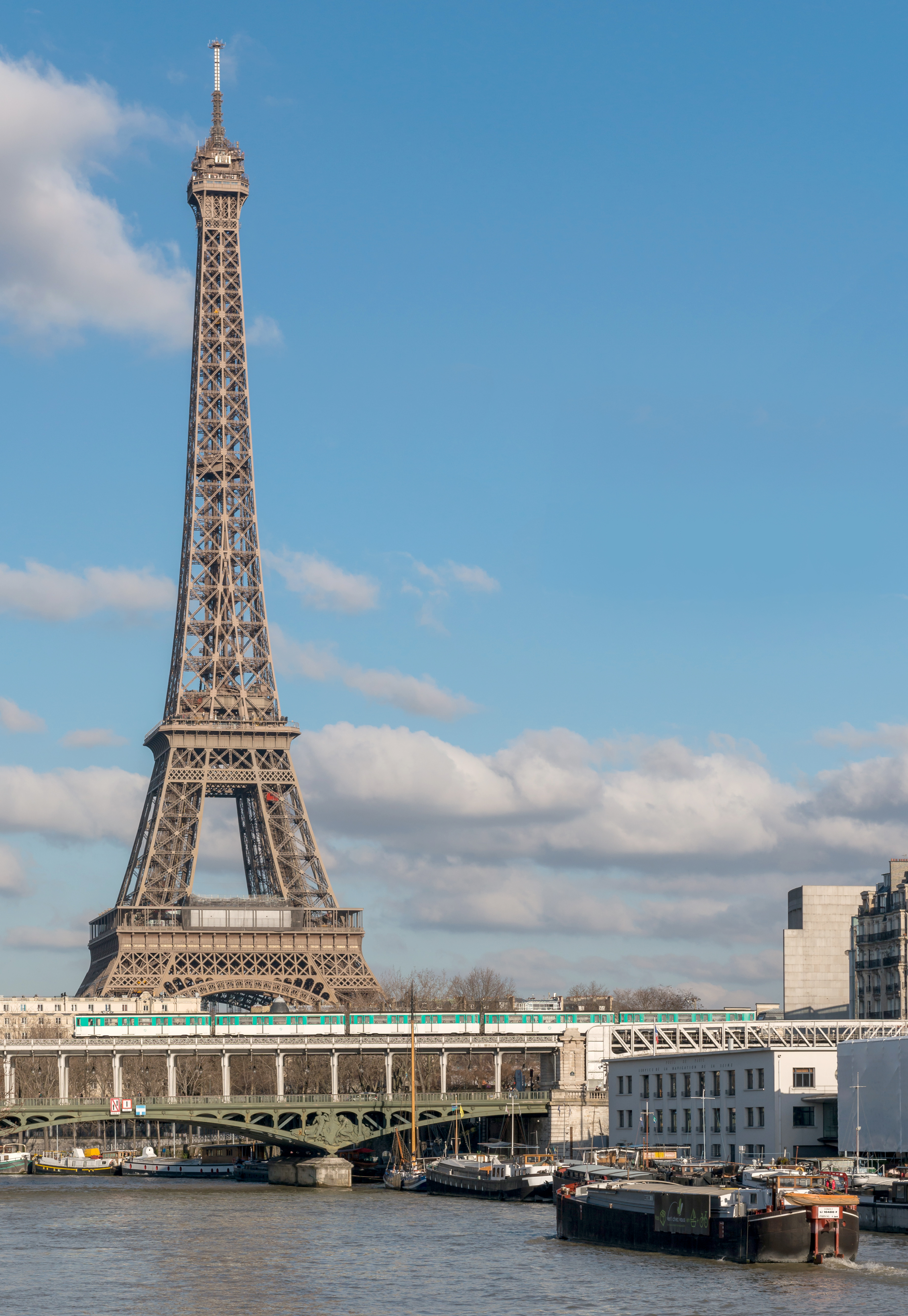 The Eiffel Tower and the Pont de Bir-Hakeim as seen from Ile aux Cygnes